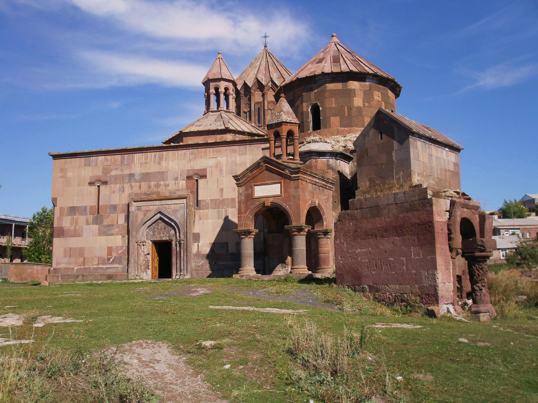 Harichavank / Haritchavank Monastery rear facade